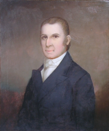 Portrait of Tennessee governor Willie Blount.